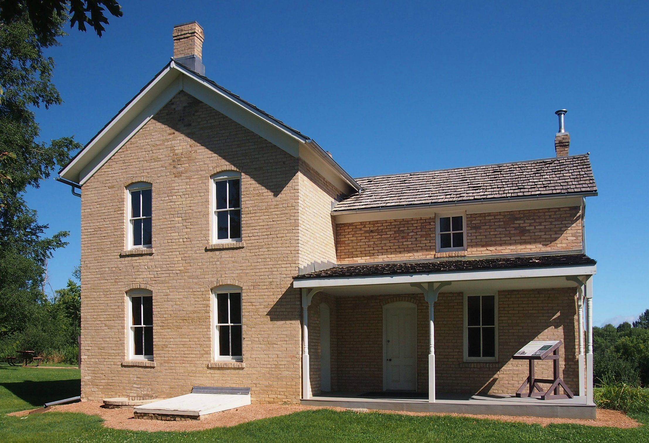 Wendelin Grimm Farmhouse, Carver Park Reserve, Laketown Township, Minnesota, USA. Viewed from the south.